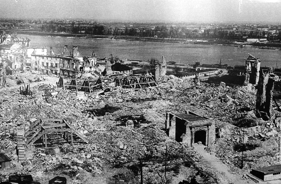 Remains of the Royal Castle in Warsaw, Poland destroyed by German Nazis during the Second World War (1939-1945). Visible remains of the prewar building, Żeromski Window, Grodzka Gate and gothic cellar. The castle was rebuilt in 1971-1984.